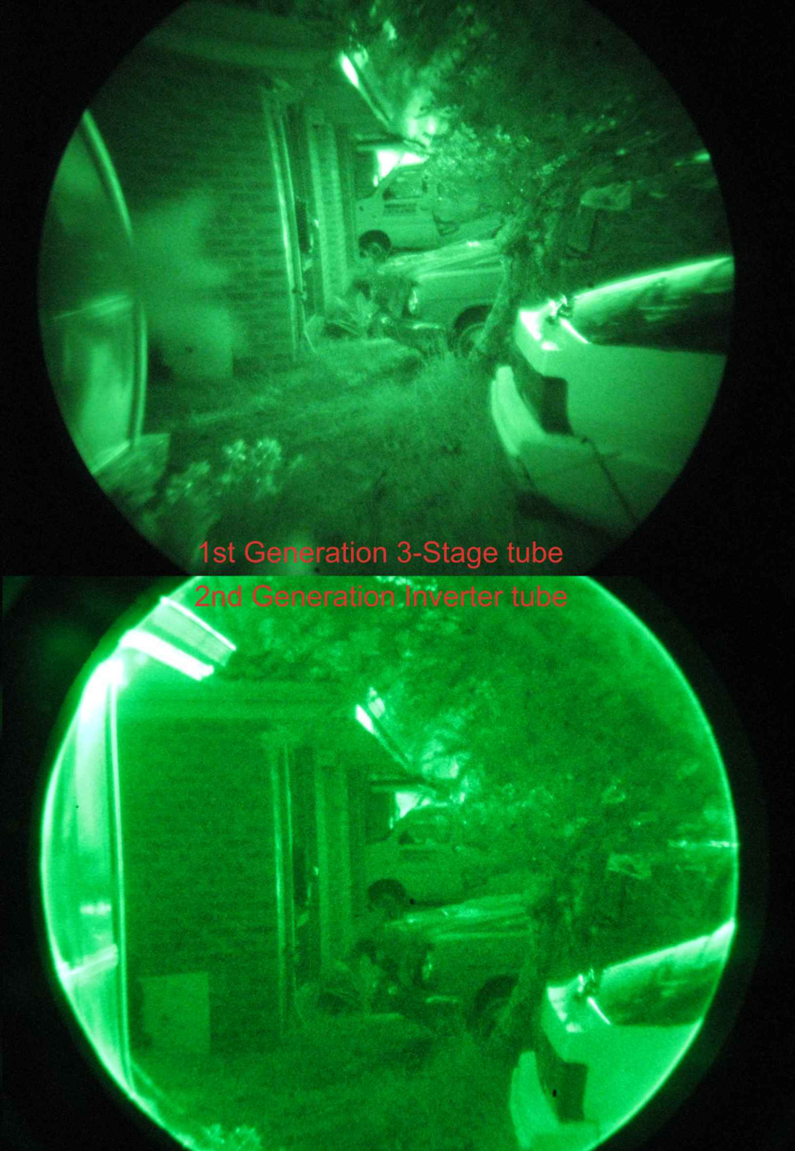 A photograph of the same scene through a first generation cascade image tube and a second generation electrostatic inverter tube.